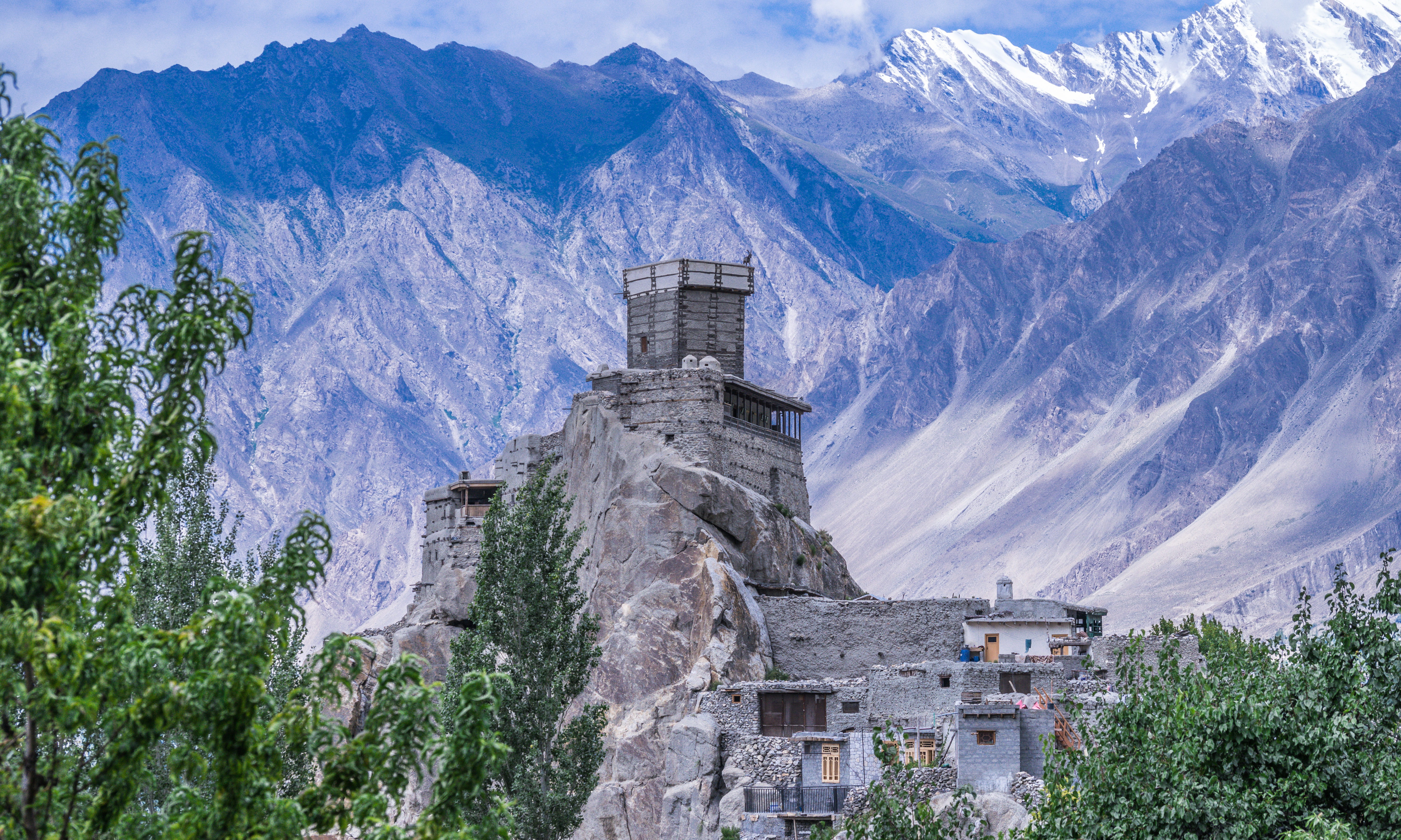 Altit Fort This is a photo of a monument in Pakistan identified as the GB-16